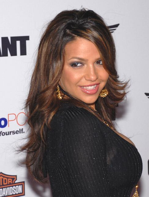 Vida Guerra at a 2007 American Music Awards after-party